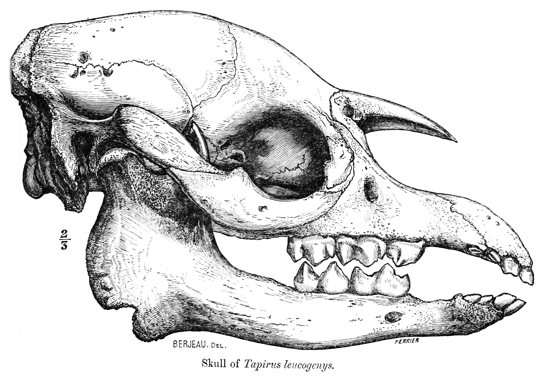 Mountain Tapir skull from lateral